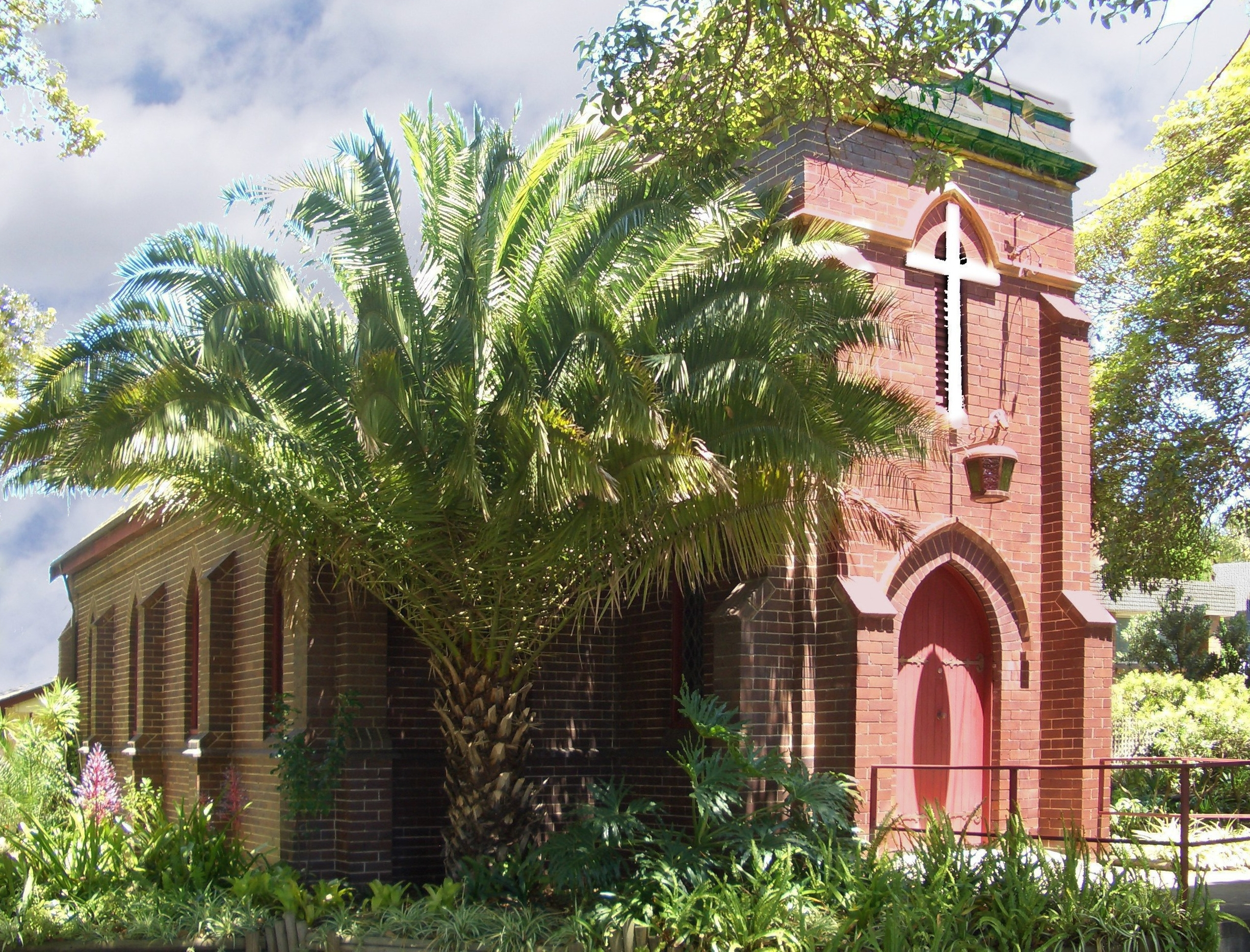 Bexley Chinese Congregational Church